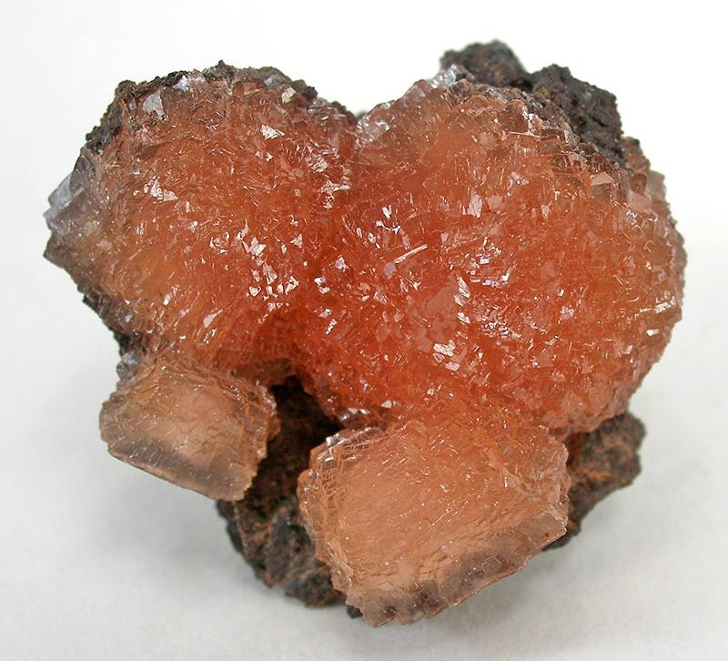 Olmiite Locality: N'Chwaning II Mine, N'Chwaning Mines, Kuruman, Kalahari manganese fields, Northern Cape Province, South Africa (Locality at ) A gorgeous, sparkling, lustrous, translucent olmiite specimen with excellent lustre. This is a superb miniature; and the aesthetics are nice because of the contrast between the two crystal habits juxtaposed on the same specimen, with the single gem crystal form accenting each of the spherical aggregates. This piece is pristine, and is one of the best miniatures I have seen (and I saw a lot of them at the time they came out around 2000). Charlie Key was first on the scene and got many of the best, including this one. 4.1 x 4.0 x 2.4 cm